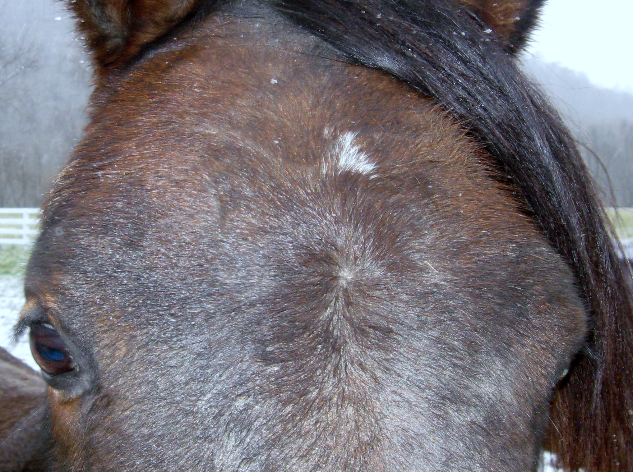 fat arab has a whorl